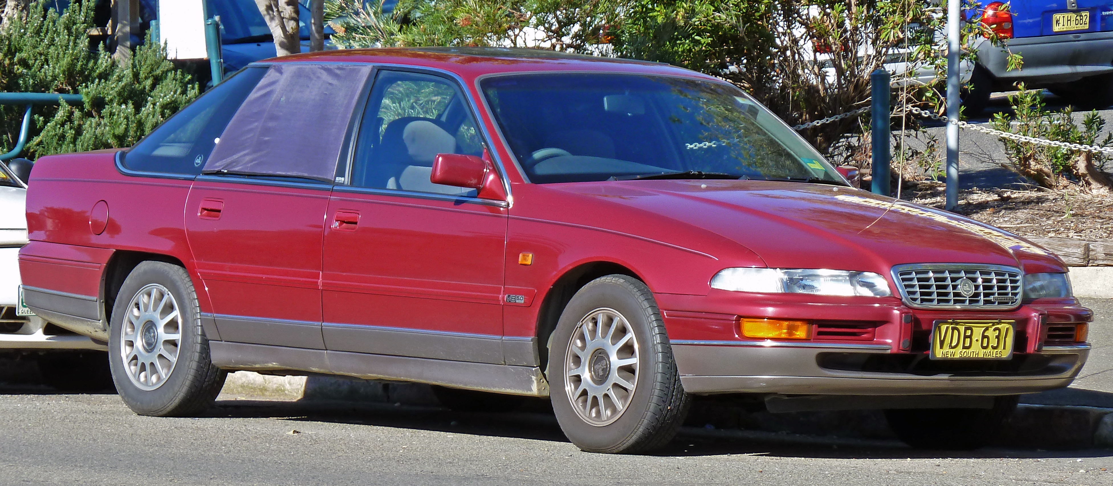 1994 Holden Statesman (VR) sedan. Photographed in Cronulla, New South Wales, Australia.